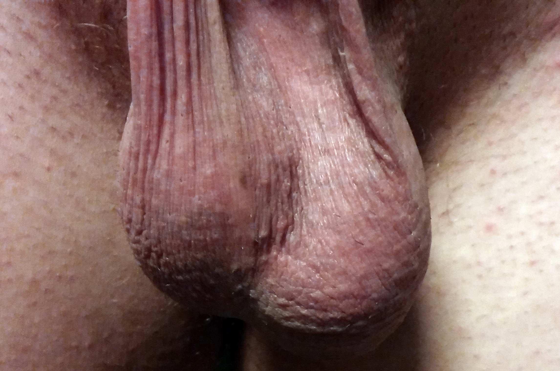 Human scrotum and testicles hanging loosely